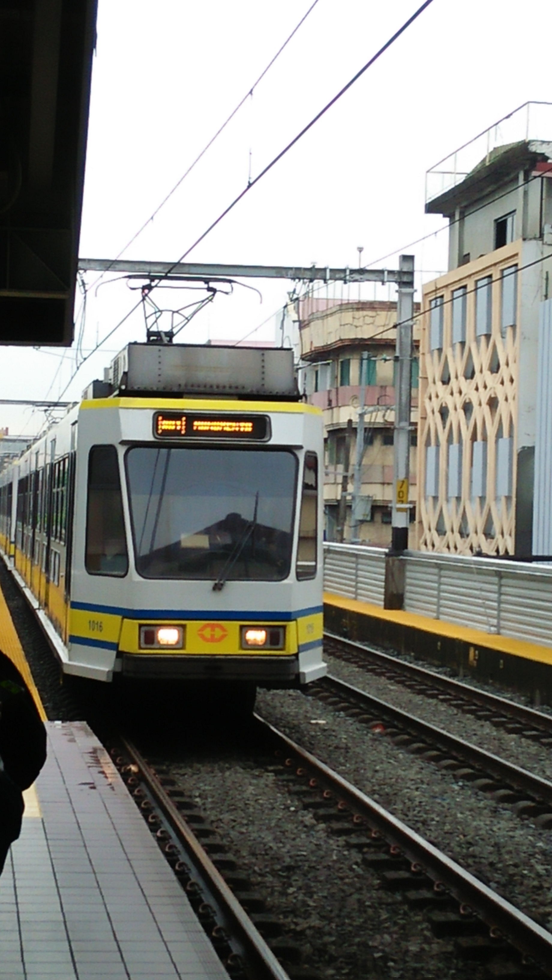 Newly refurbished 1st Generation LRT 1 trains for upgrading its destination display into LED